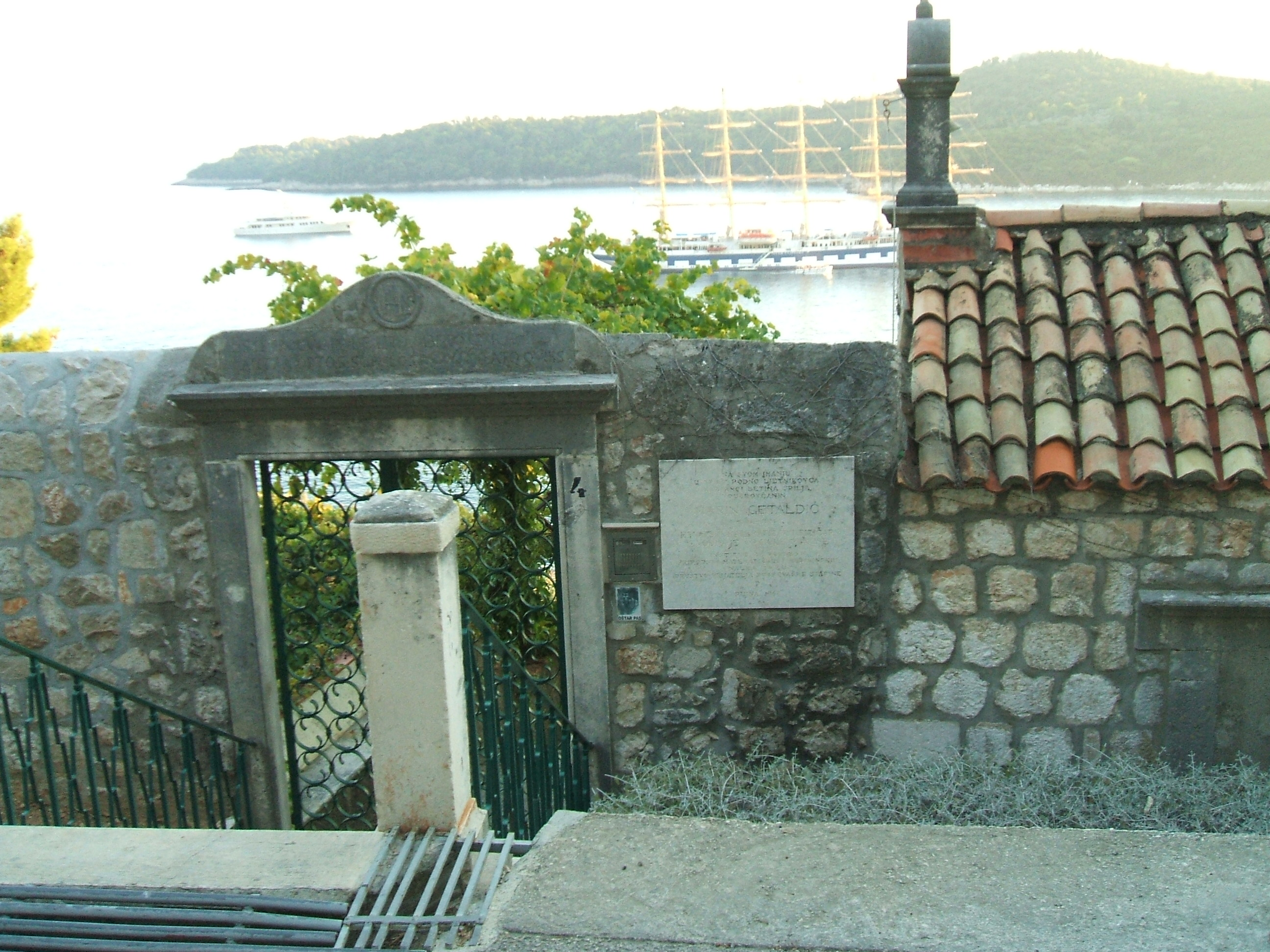 Entrance of Villa Getaldic